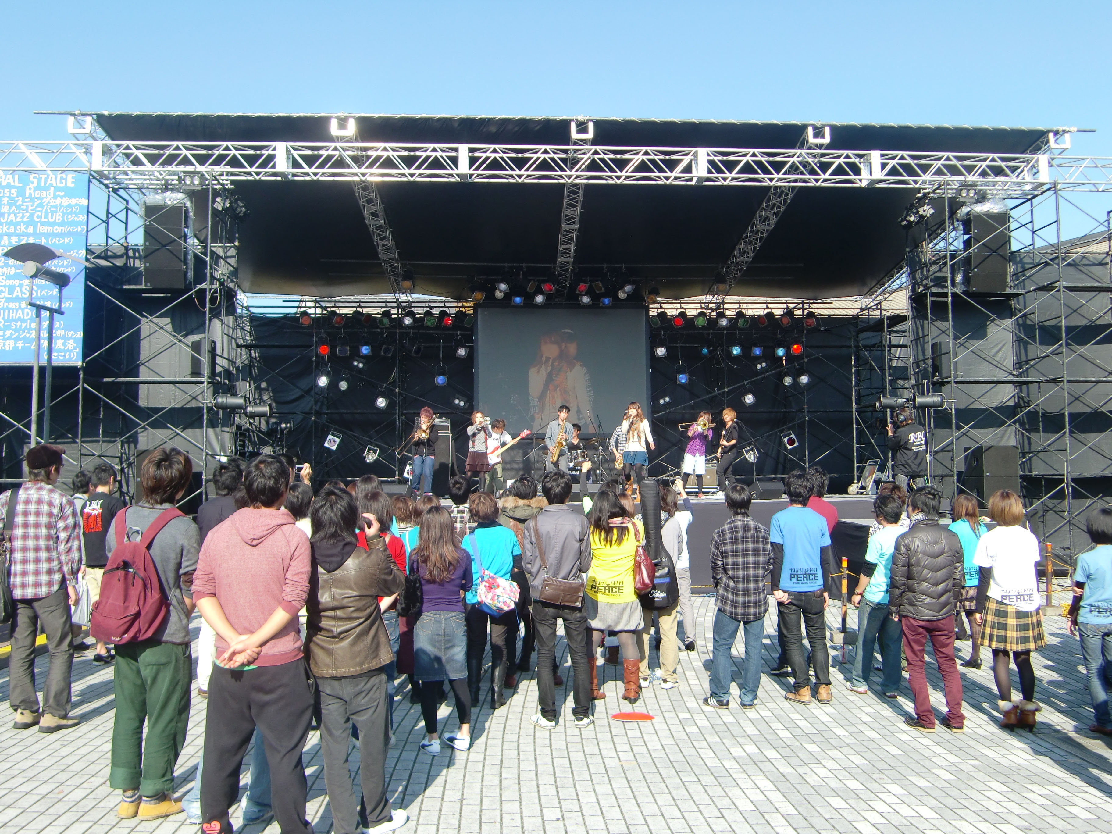 Ritsumeikan University Festival Central Stage,1-1-1 Nojihigashi Kusatsu-City Shiga JAPAN.